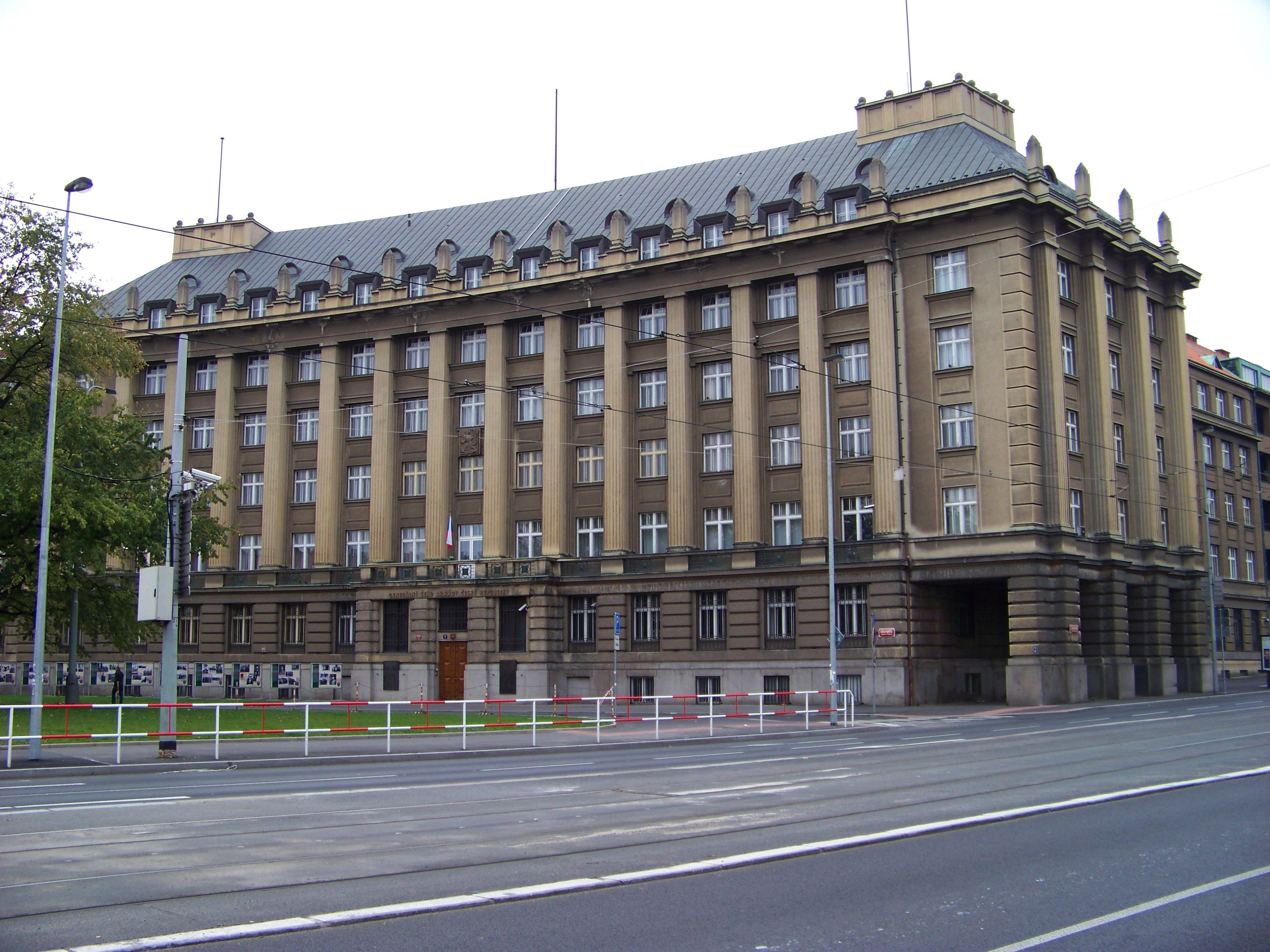 Prague-Dejvice, Czech Republic. Vítězné náměstí 1500/5, Evropská 1500/1. Generality office of the Army of the Czech Republic.